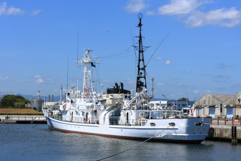 Japan Coast Guard patrol boat Natsui (PM01) at the Port of Onahama.